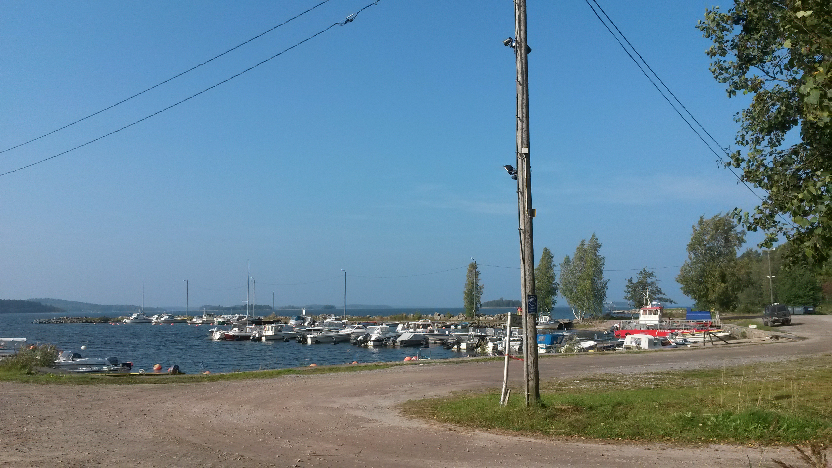 View of Oravais harbour on September 11, 2014.